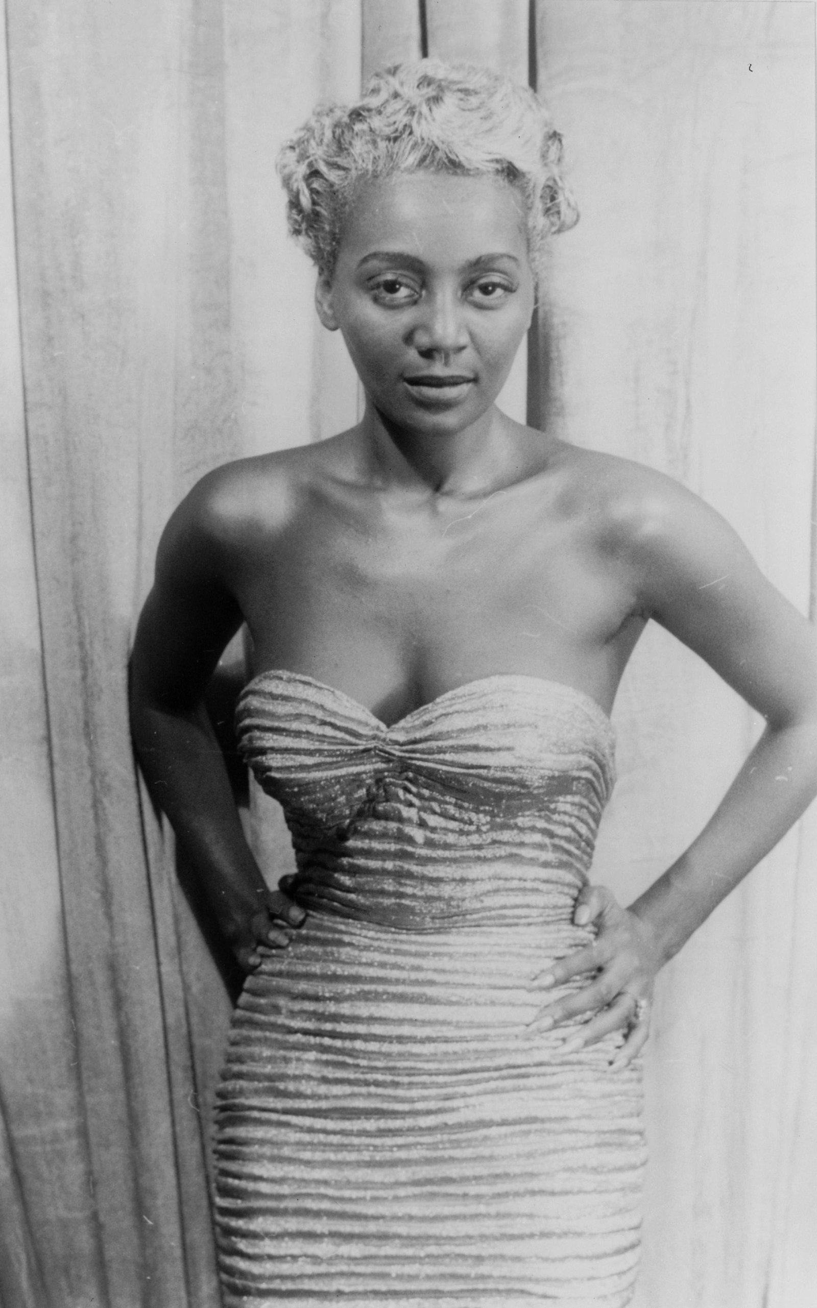 Joyce Bryant, an African-American Jazz singer and actress Portrait of Joyce Bryant